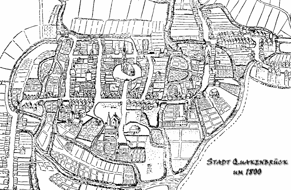 reproduction map of Quakenbruck (Niedersachsen) around 1800 self made with Photoshop CS3 (original map: Stadtmuseum Quakenbruck)